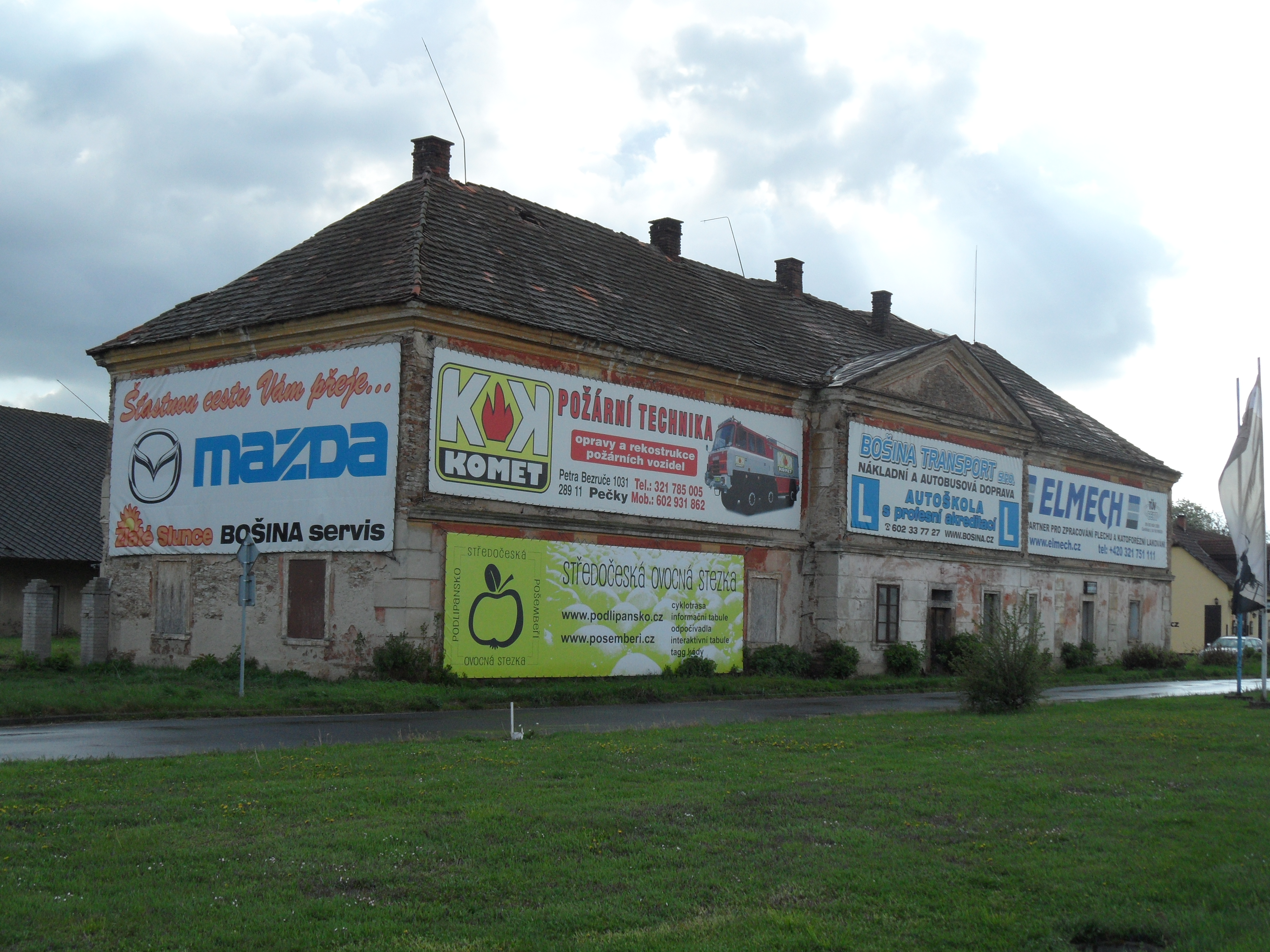 Zlaté Slunce (Brezany I) B. Damaged Classicist Inn, First Half of 18th Century, Kolín District, the Czech Republic.